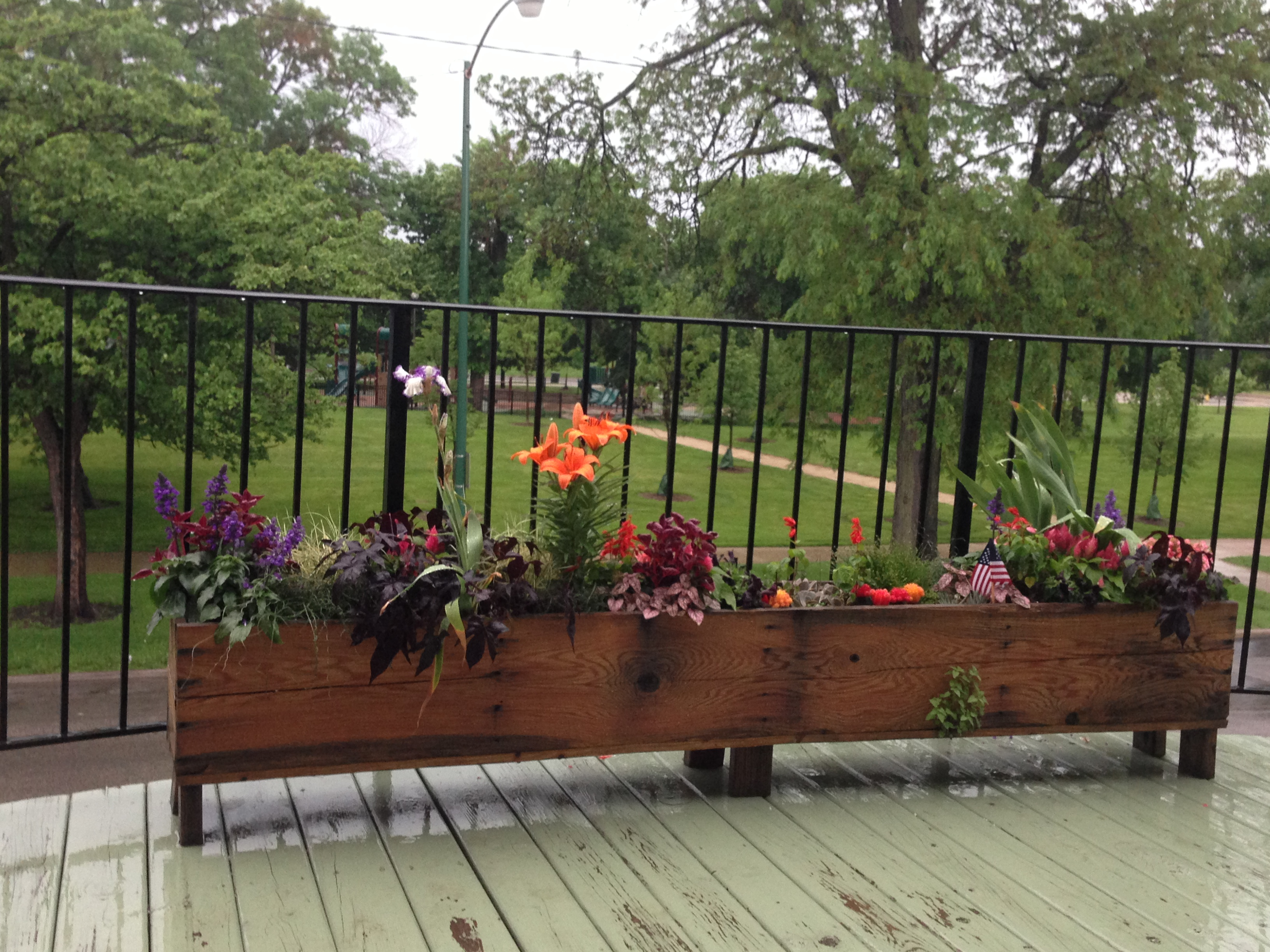 Personal photograph of Humboldt Park from private residence